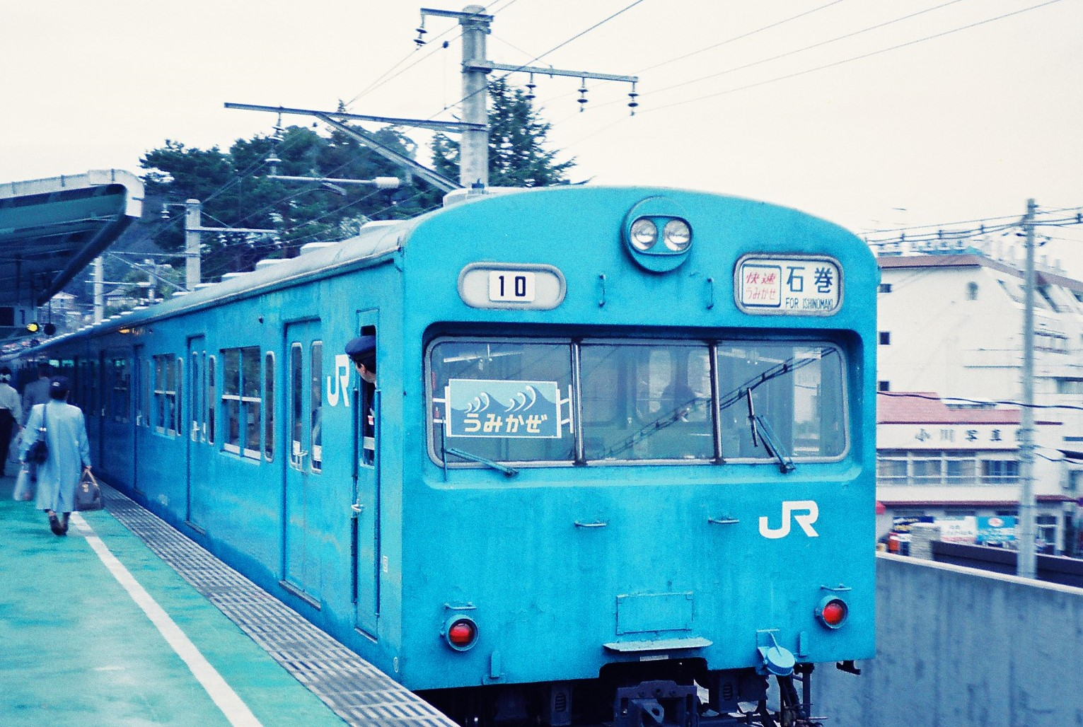 Matsushima-Kaigan Station